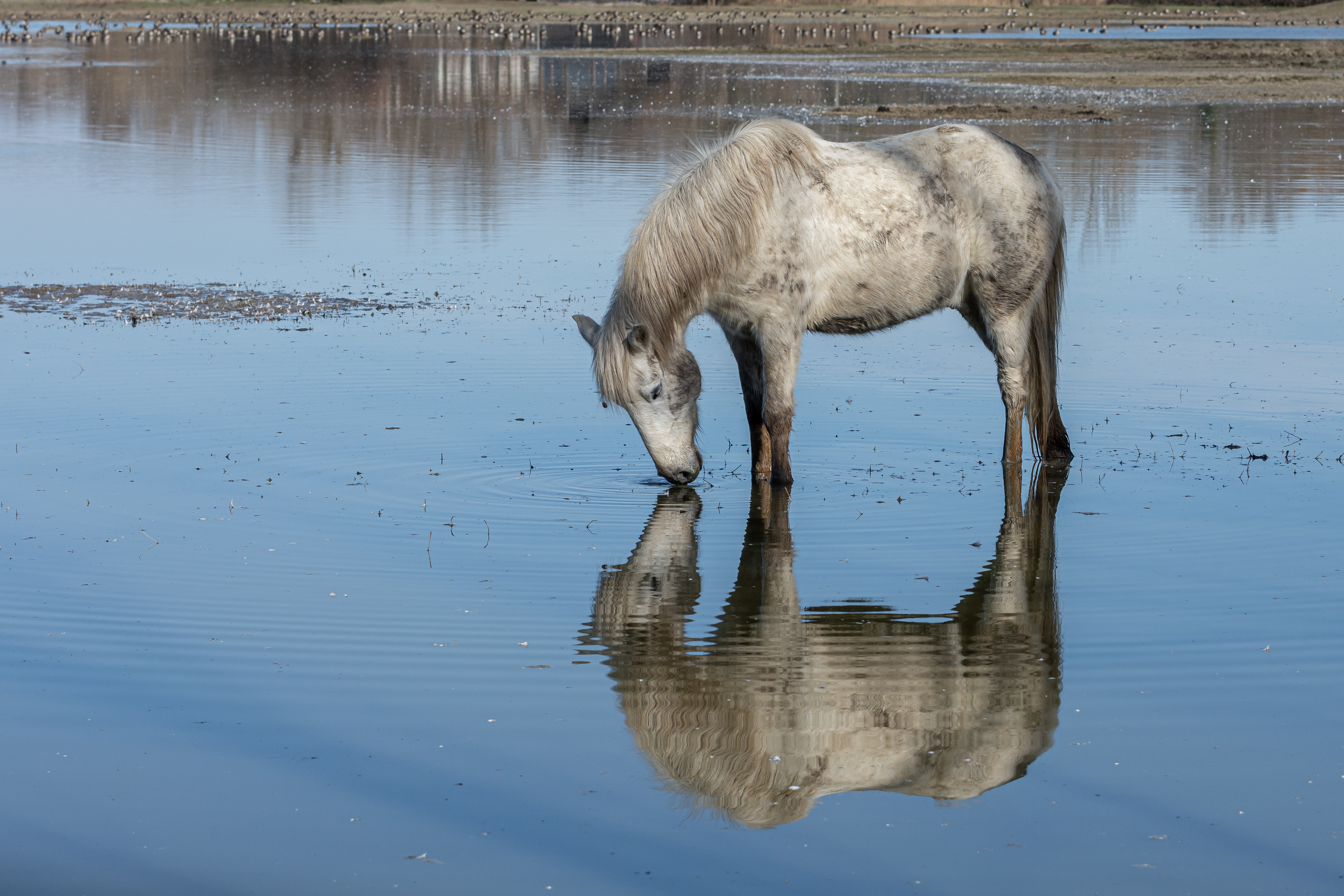 Feral Camargue horse in Riserva Naturale della Foce dell'Isonzo/ Friuli-Venezia Giulia / Italy